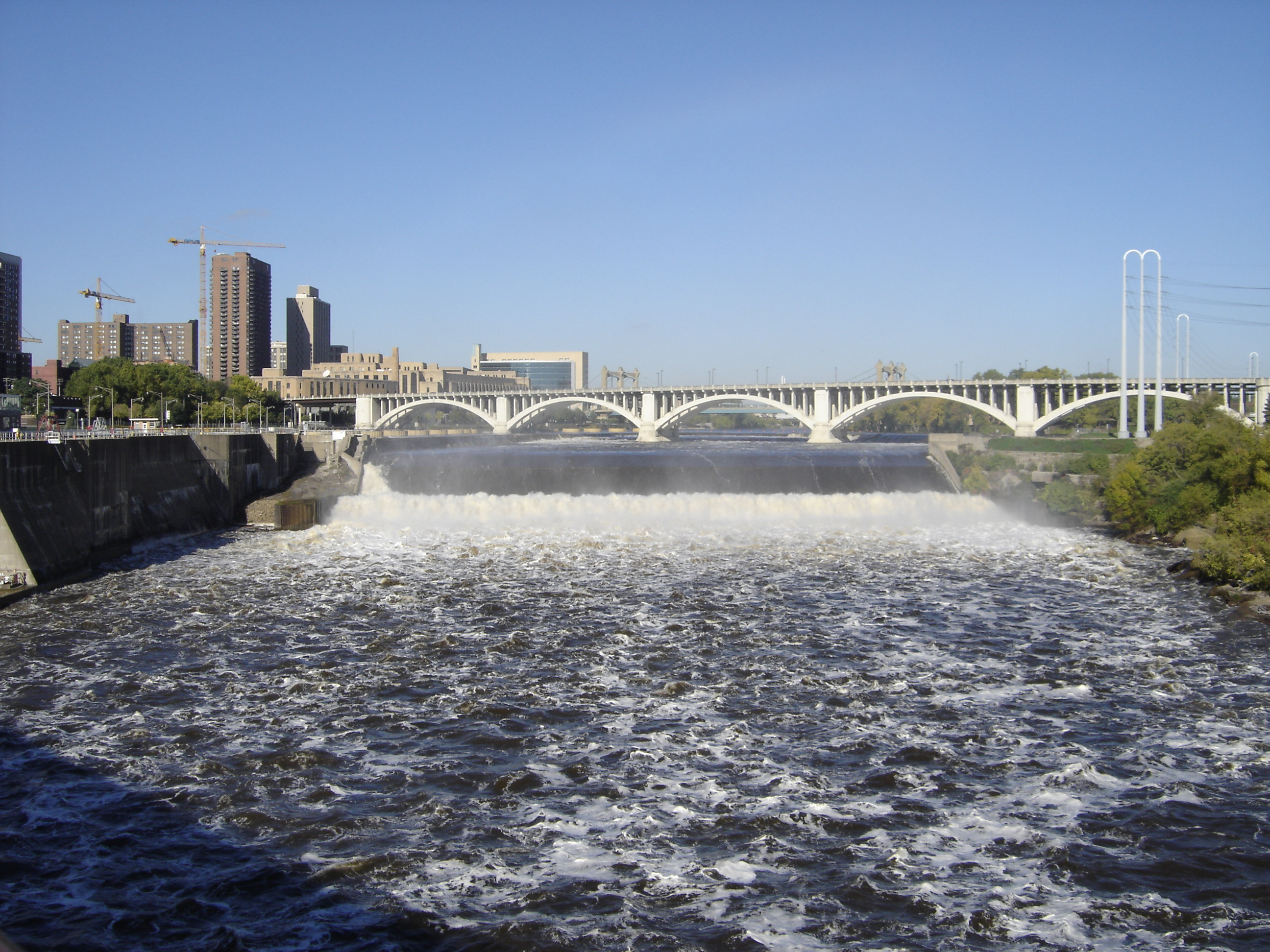 The Third Avenue Bridge over the Mississippi in Minneapolis, with the upper Saint Anthony Falls dam and lock (left) in the foreground. Viewed from south-east, from the Stone Arch Bridge.